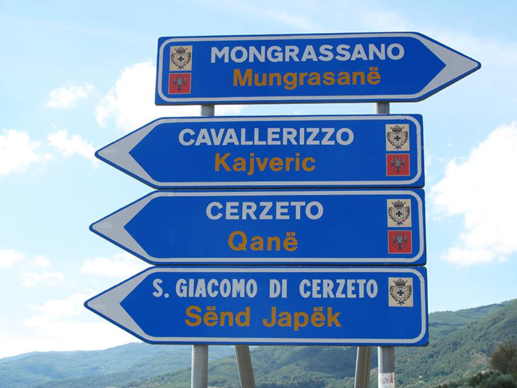 Bilingual street sign